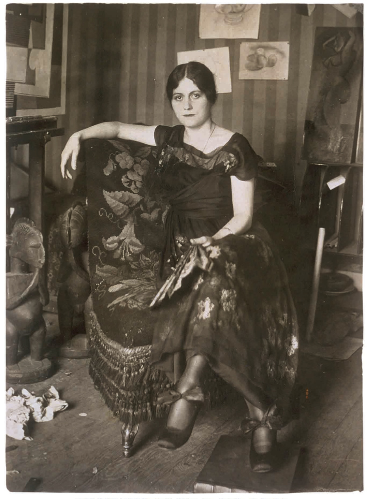 Olga Khokhlova in Picasso's Montrouge studio, spring 1918. Photo attributed to Pablo Picasso or Émile Deletang